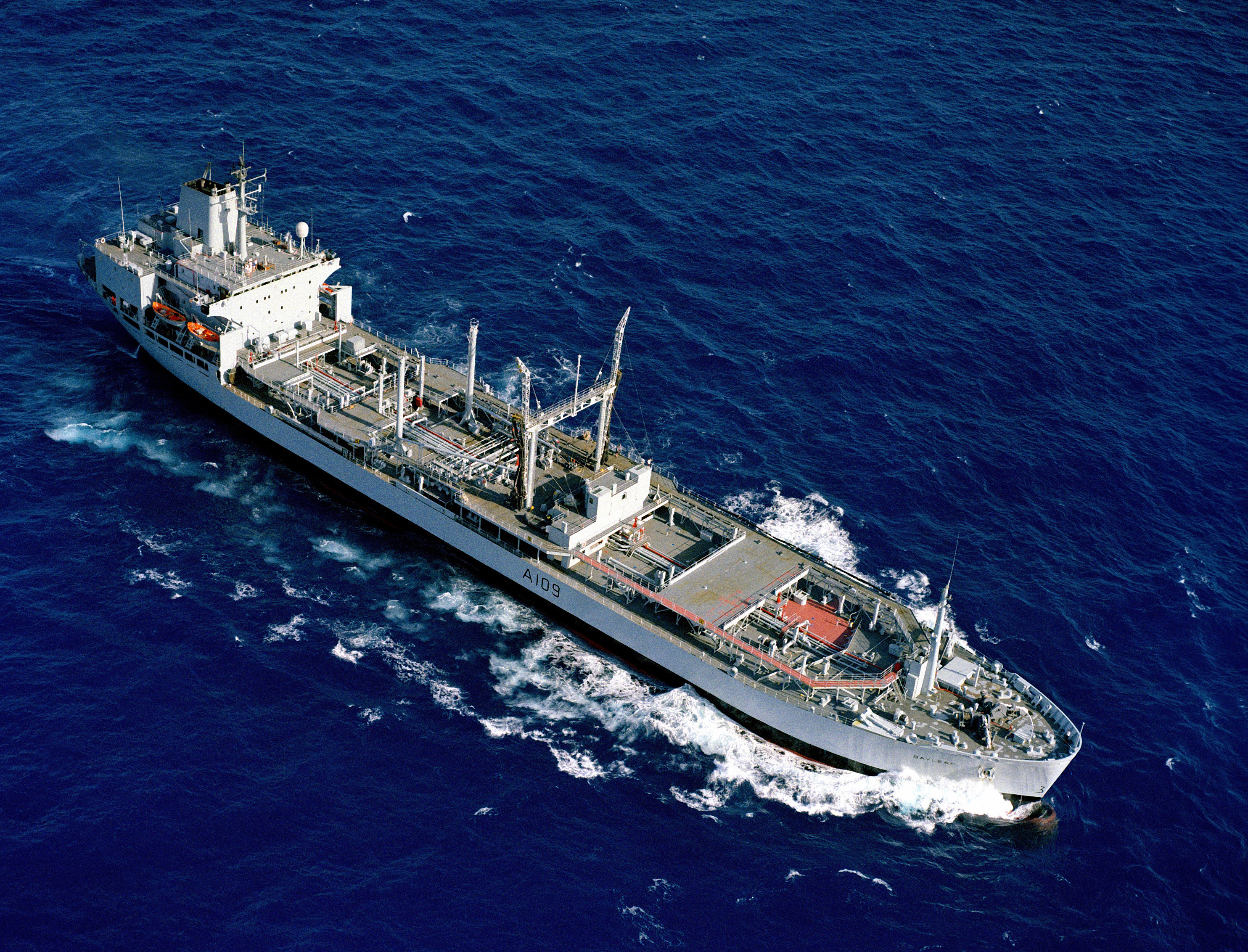 An overhead view of the Royal Navy Appleleaf-class support tanker RFA Bayleaf (A109) underway during exercise "Distant Drum", in 1983.